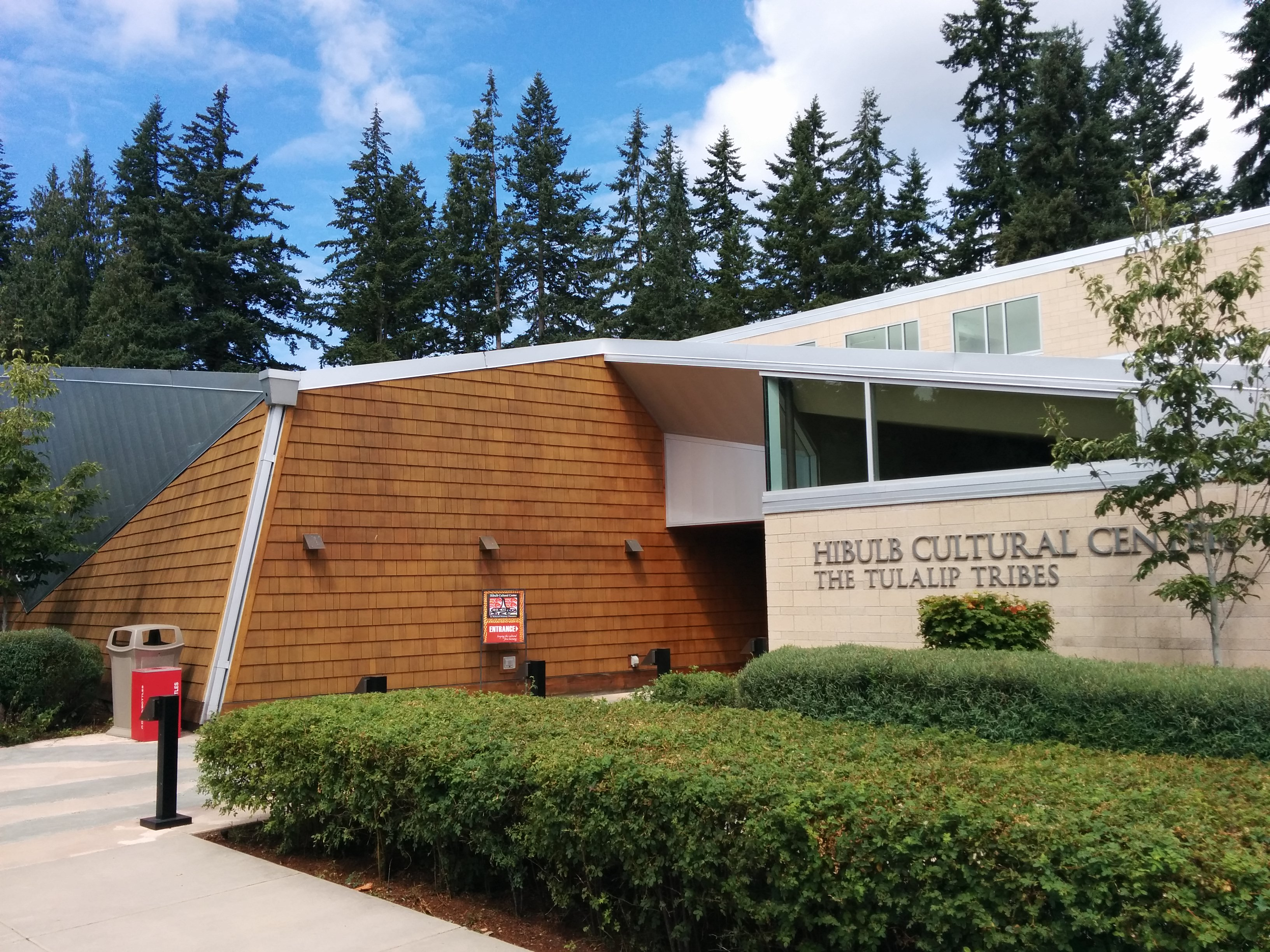 Hibulb Cultural Center and Museum on Tulalip reservation, Snohomish County, Washington, United States